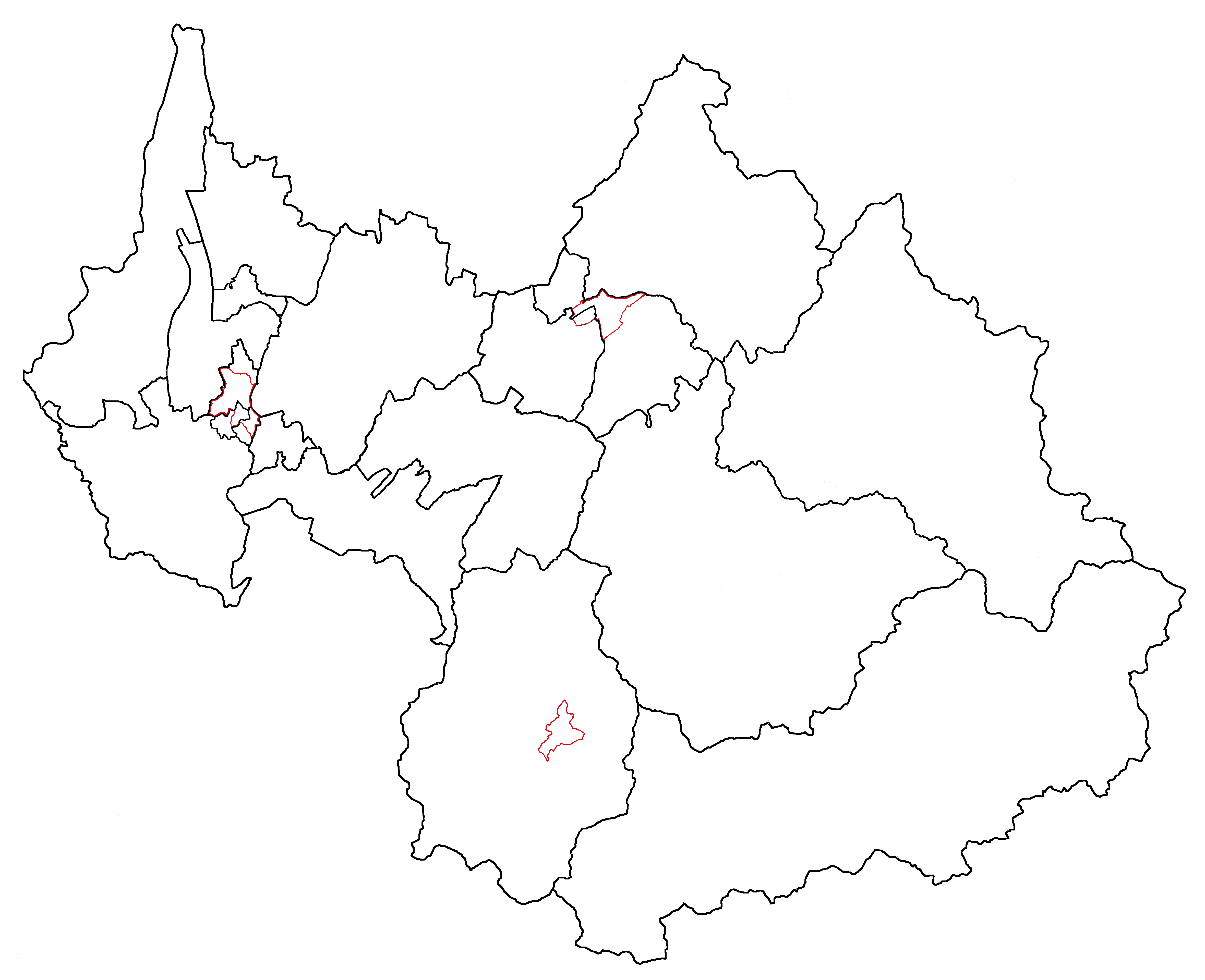 Map of the 19 electoral 'cantons' of the French department Savoie, with in red the préfectures and sous-préfectures towns.